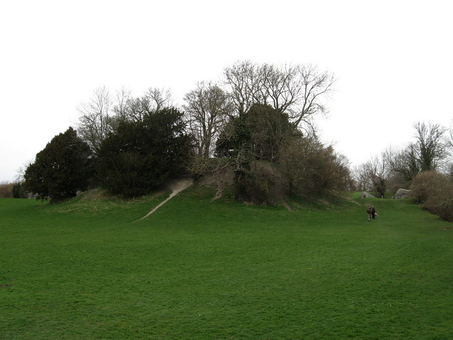 Motte, Bramber Castle Just the mound remains now overgrown by trees. The castle was built in 1073 and was derelict by the 16th century.